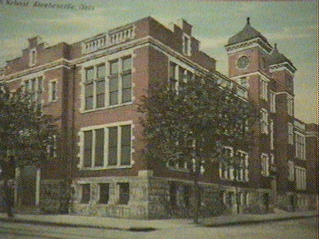 The High School in Steubenville, Ohio named for Bezaleel Wells, founder of the city. Seen in 1911 postcard.